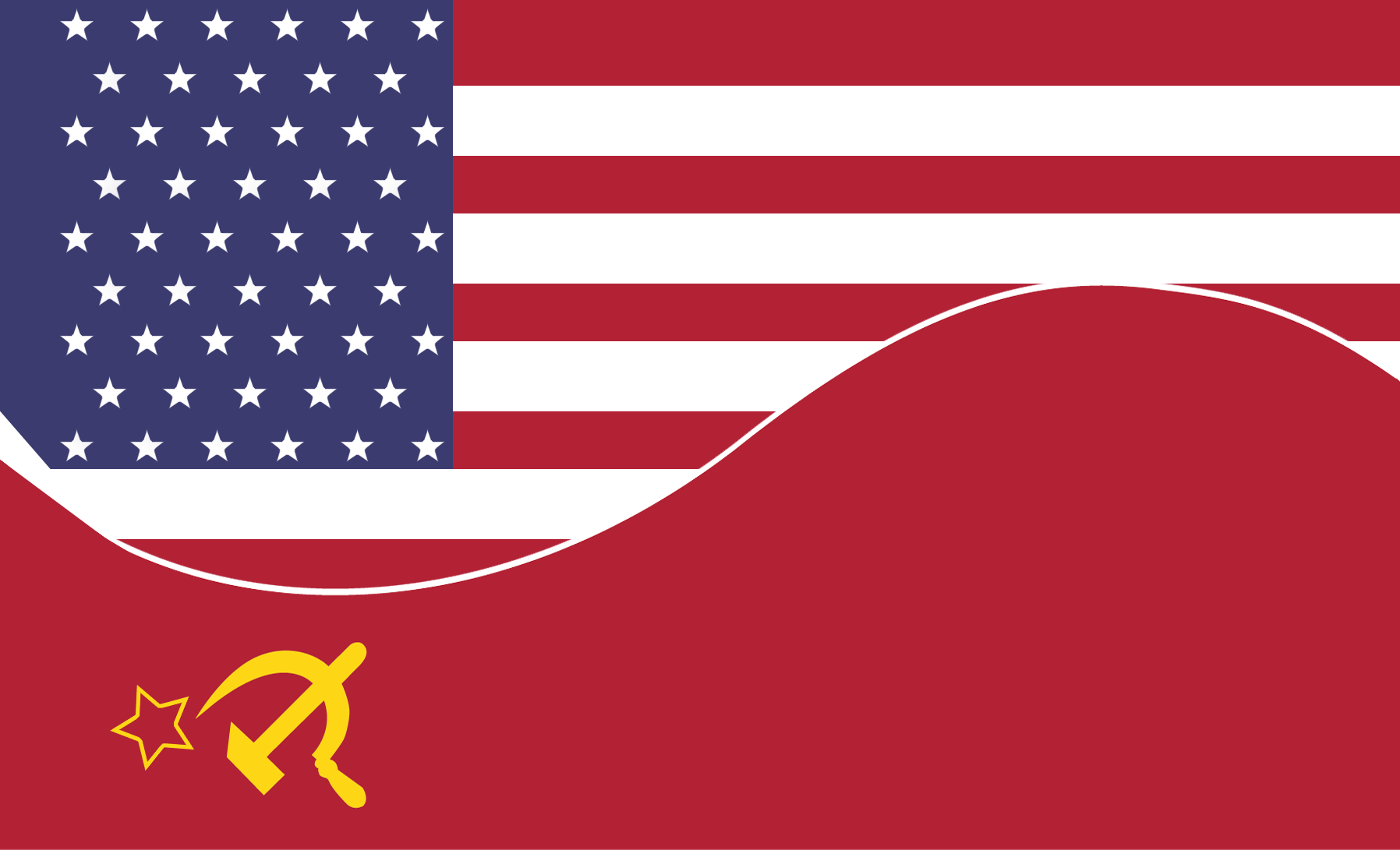 American-soviet flag as seen in the Apollo 20 video.